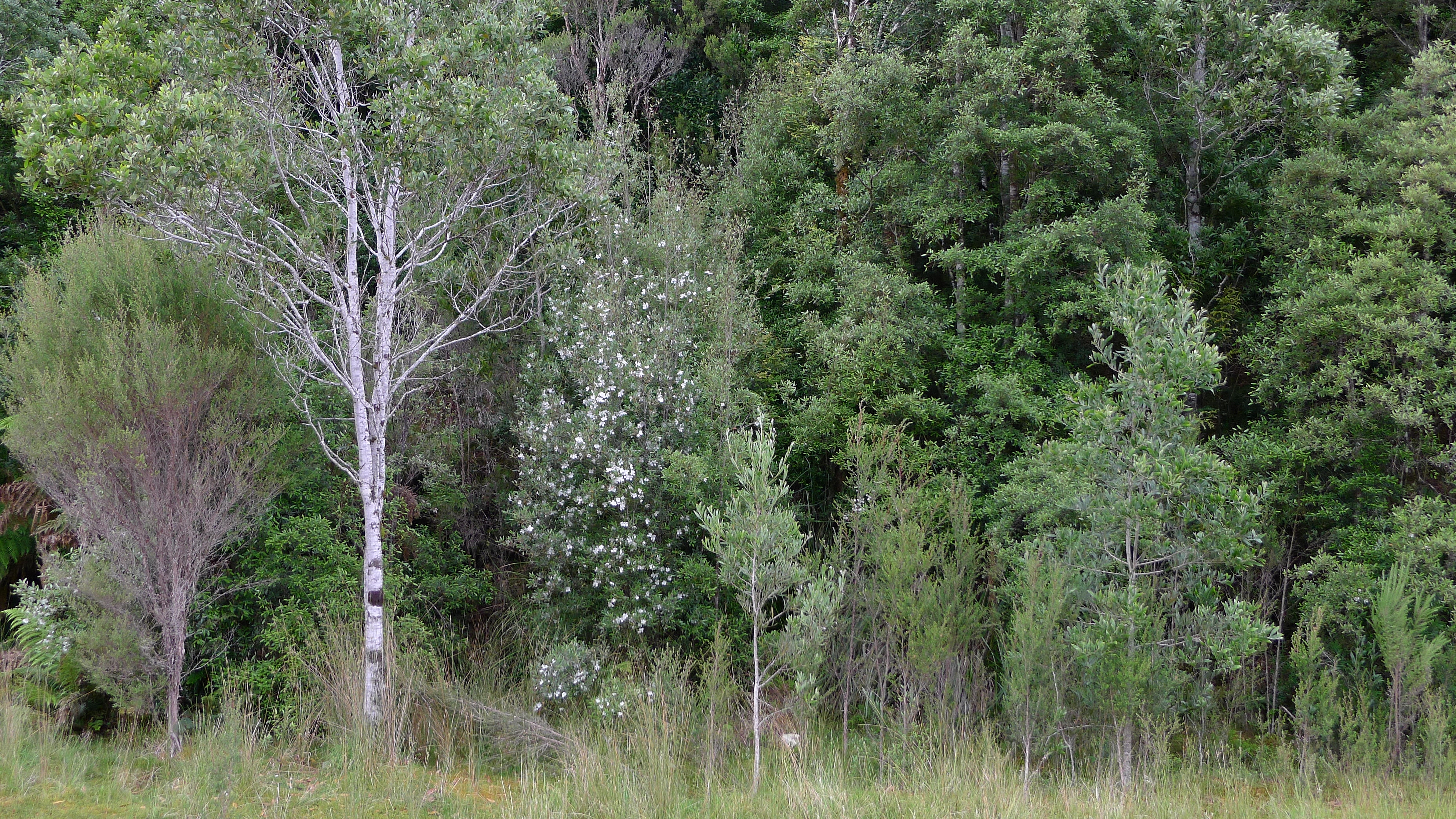 Eucryphia lucida Leatherwood, young growing sapling tree in full flower and growth. "In amongst other rainforest trees and covered in white flowers, a Leatherwood, Eucryphia lucida. Montezuma Falls, Tasmania, Australia, January 2012." 5 Jan 2012 by John Tann.